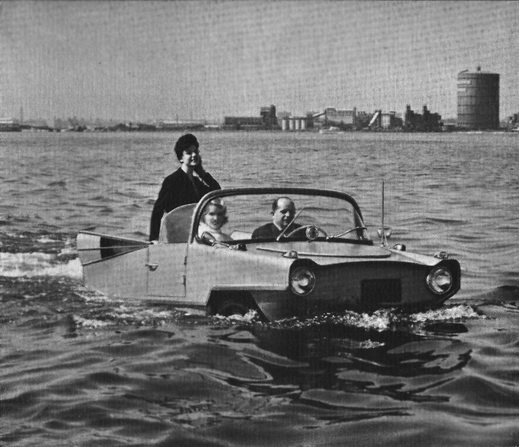 Designed by Hanns Trippel, who was fascinated with microcars and designed many of them, most of which were quick commercial failures. I have two Amphicar brochures and one appears to be a prototype and the later one the production version. I have scanned the relative pages so comparisons can be made. They must have sold a lot of these in America, the target market, because so many are still around, and still floating.